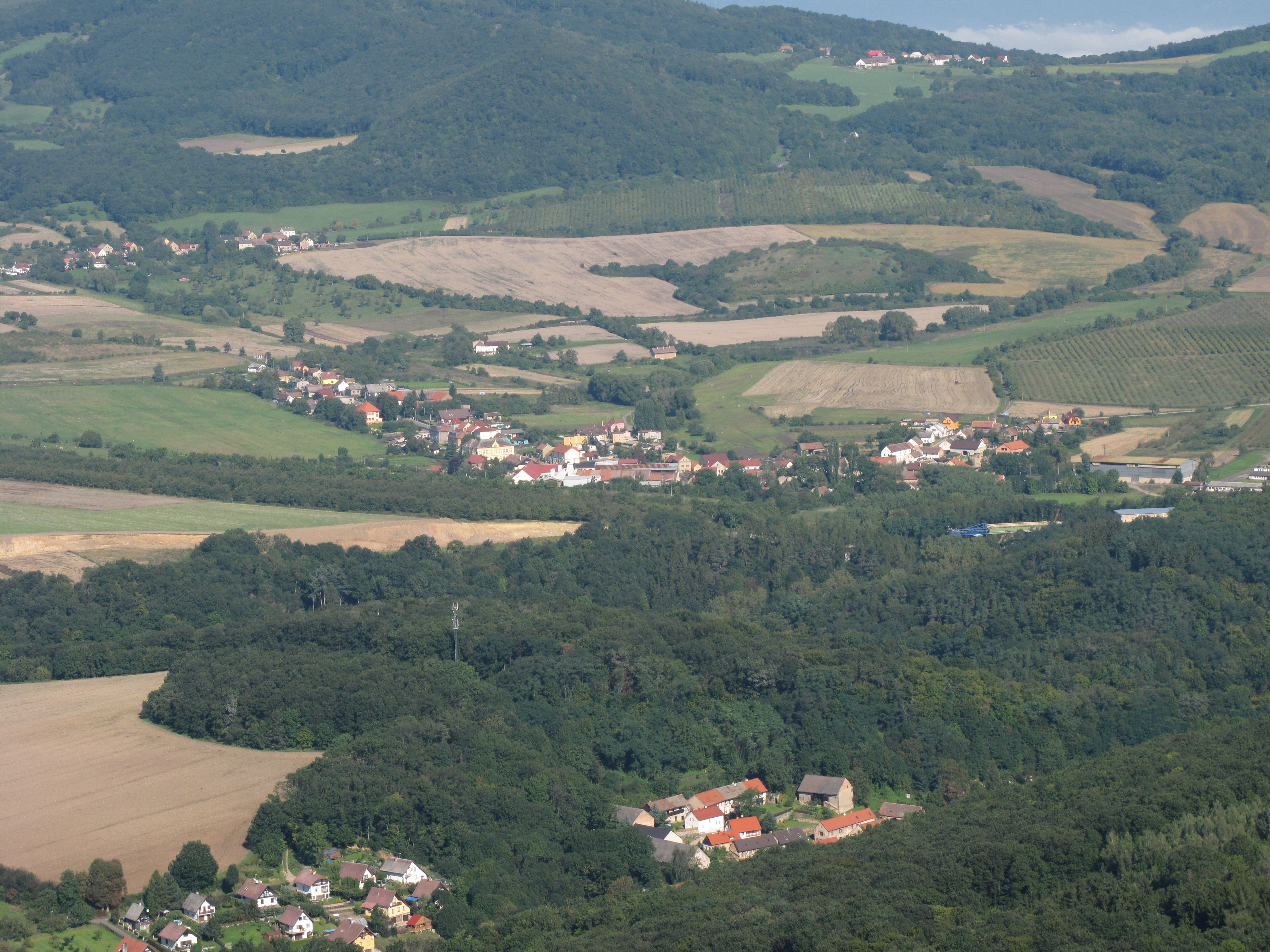 View from Lovoš Hill, Litoměřice District, Czech Republic.